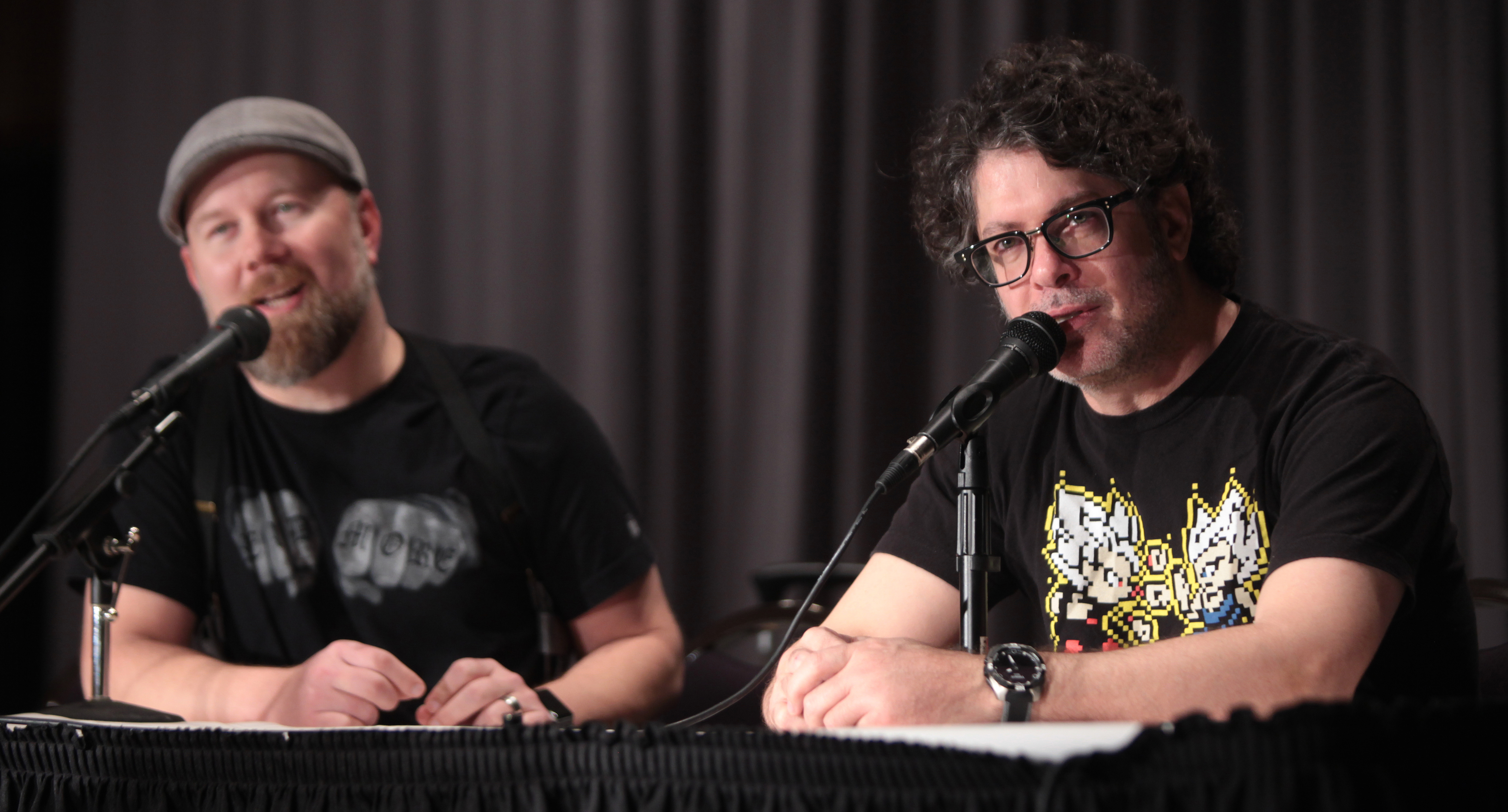 Christopher Sabat and Sean Schemmel at the 2016 Taiyou Con at the Mesa Convention Center in Mesa, Arizona.